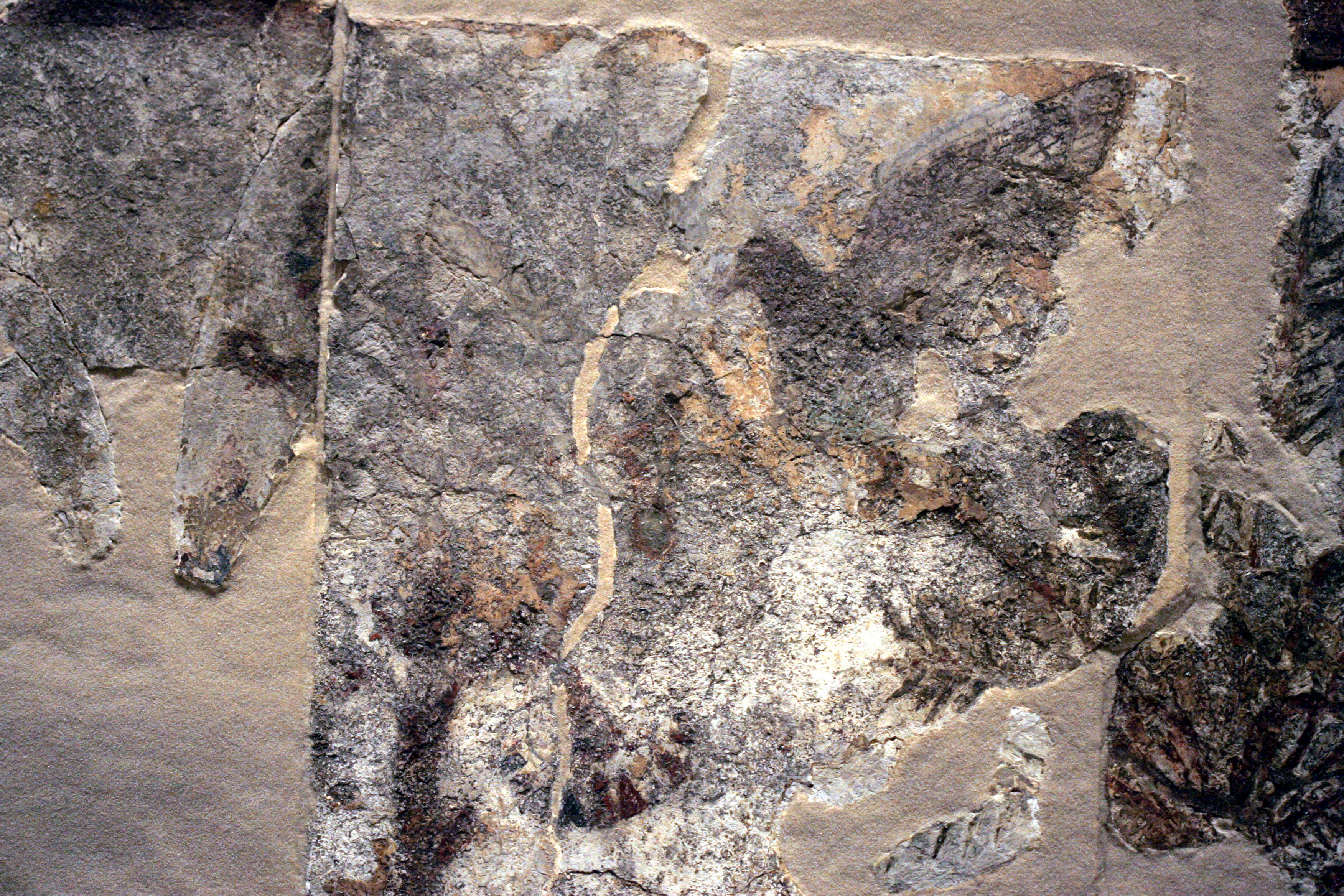 ArtistUnknownDescription Fresco of the investiture of Zimri Lim [1] 19th century BC, Royal palace of Mari. (Zimri-Lim, 1779 BC to 1757 BC, one bird visible, etc.) Current location (Inventory)Louvre Museum Native nameMusée du LouvreLocationParisCoordinates48° 51′ 37″ N, 2° 20′ 15″ E Established1793Website control : Q19675 VIAF: 257711507 ISNI: 0000 0001 2260 177X ULAN: 500125189 LCCN: n80020283 NLA: 35912436 WorldCat Richelieu Rez-de-chaussée Mésopotamie, IIe et Ier millénaires avant J.-C. Salle 3Accession numberAO 19826Credit lineFound by A. Parrot, 1935 - 1936Source/PhotographerRama Fresco of the investiture of Zimri Lim [1] 19th century BC, Royal palace of Mari. (Zimri-Lim, 1779 BC to 1757 BC, one bird visible, etc.)